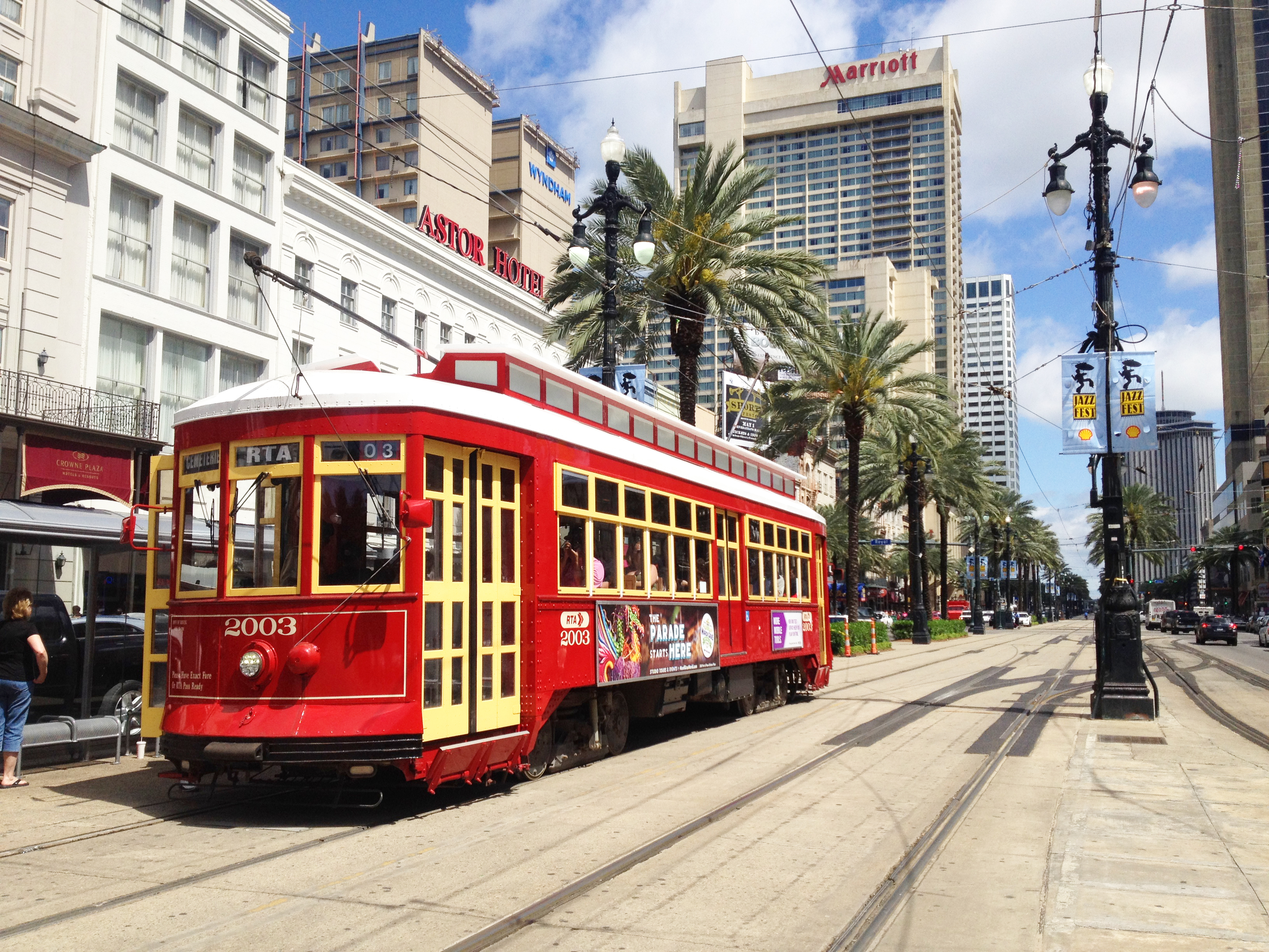 Canal Streetcar in New Orleans